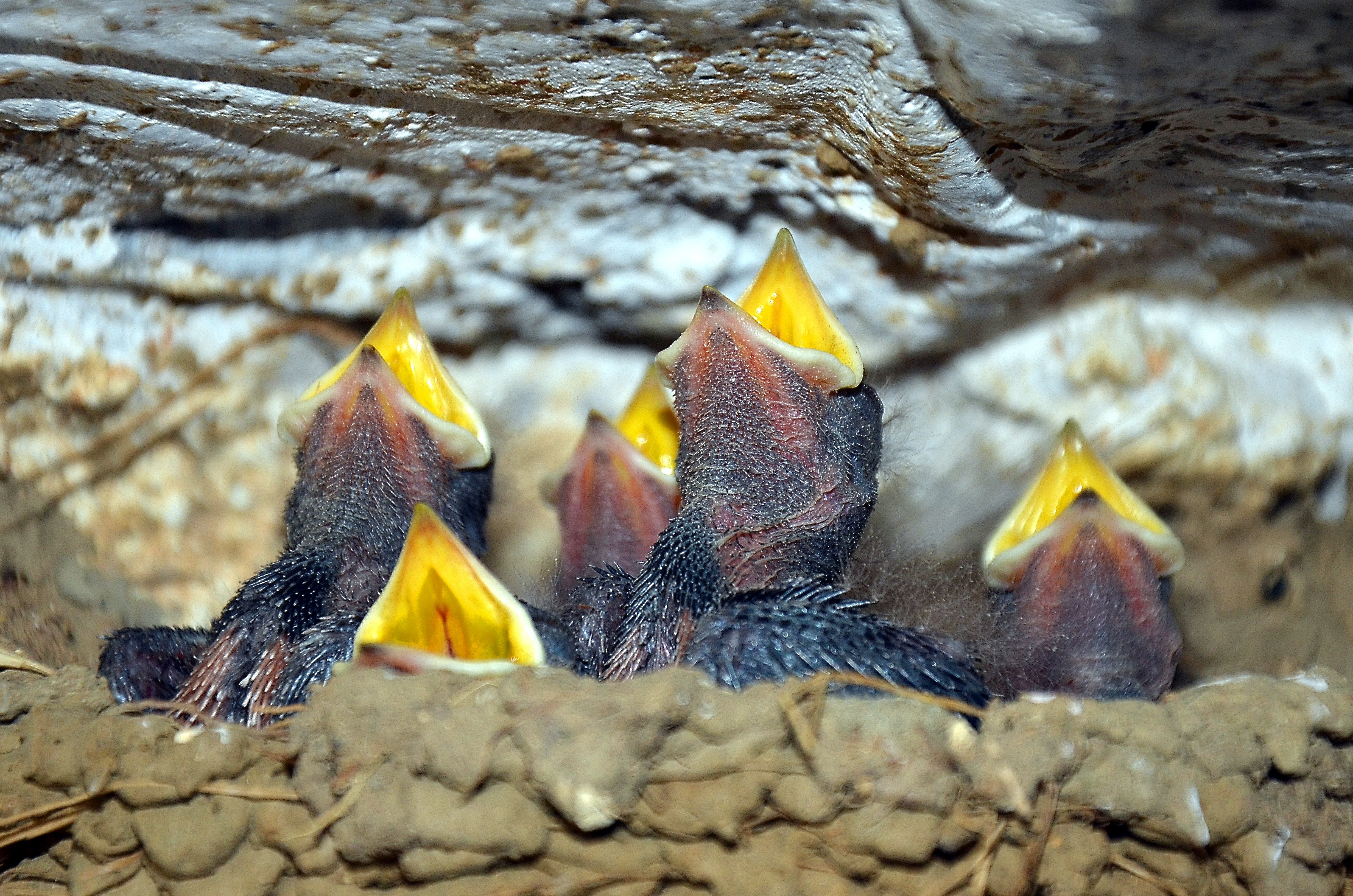 swallows